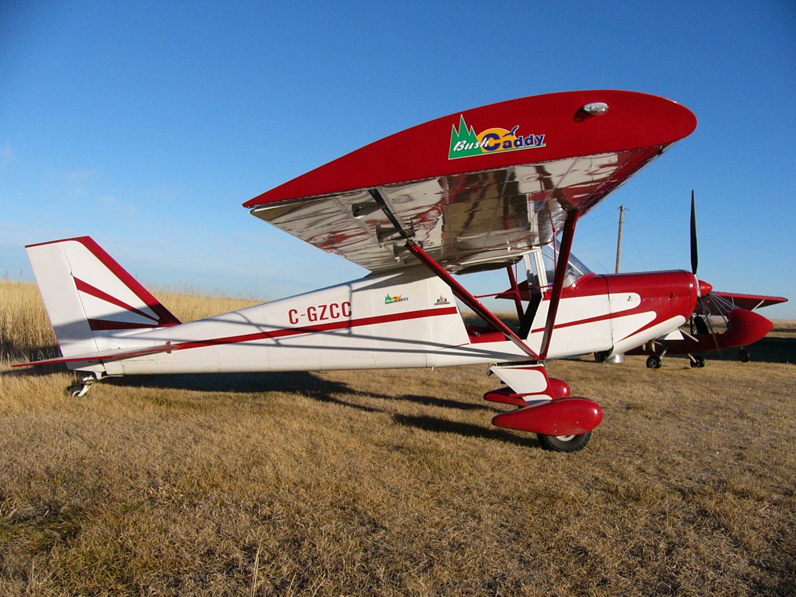 CLASS R-120 BushCaddy at the Chestermere-Kirkby Fly-in, Alberta, Canada.